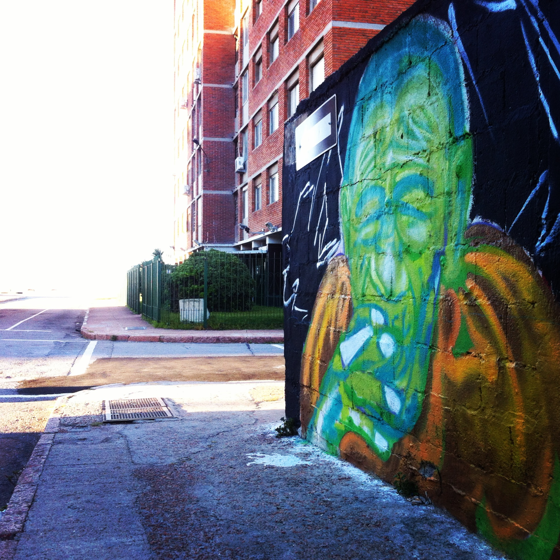 A cannabis smoker, graffiti in Montevideo, Uruguay.